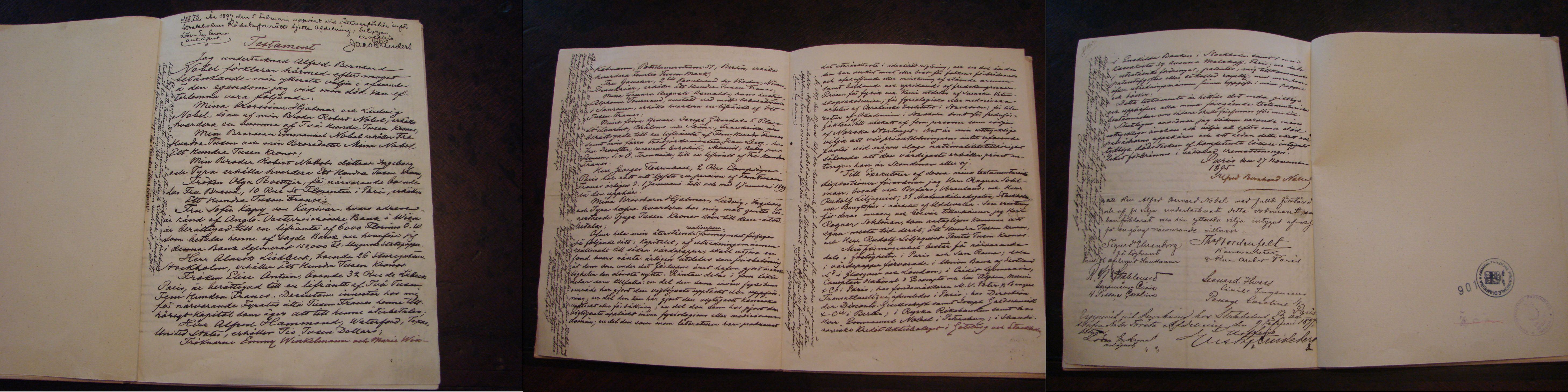 Alfred Nobel will - exposed at Villa Nobel in Sanremo